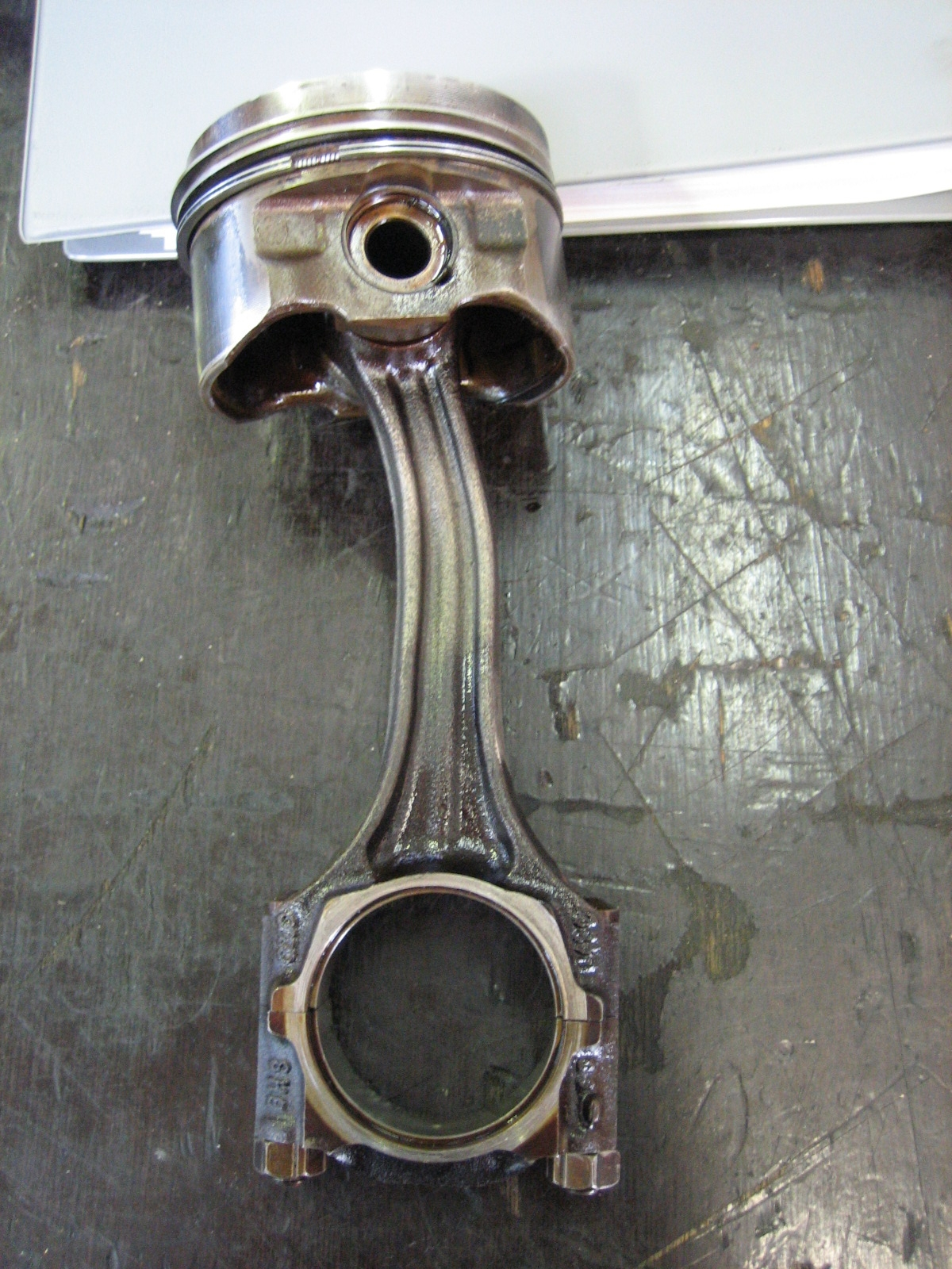 Connecting rod of a Seat Arosa after Hydrolock